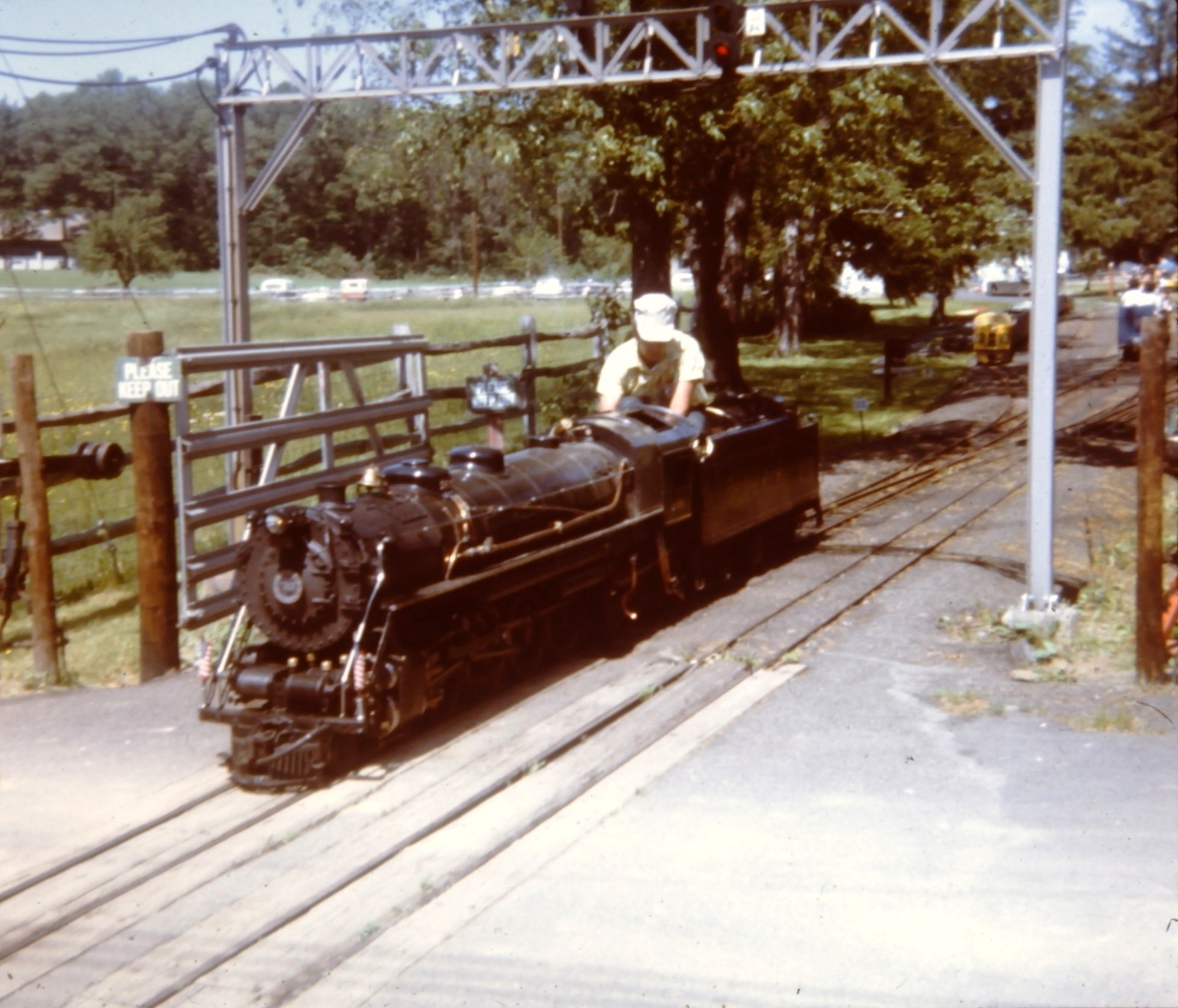 Wally From Columbia (NJ) (talk) 16:22, 22 December 2010 (UTC)